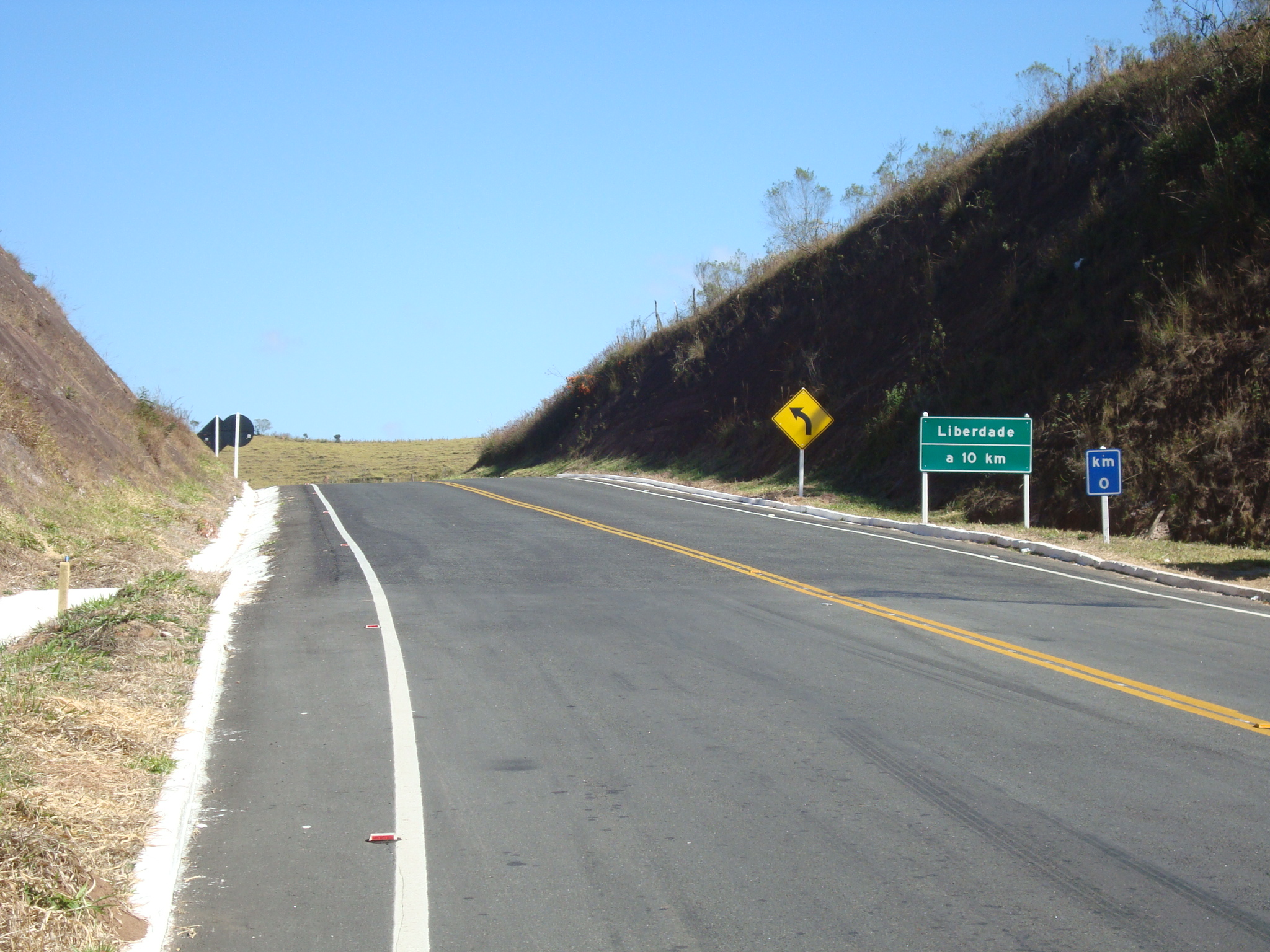 Road AMG-3040 in Liberdade, Minas Gerais, Brazil